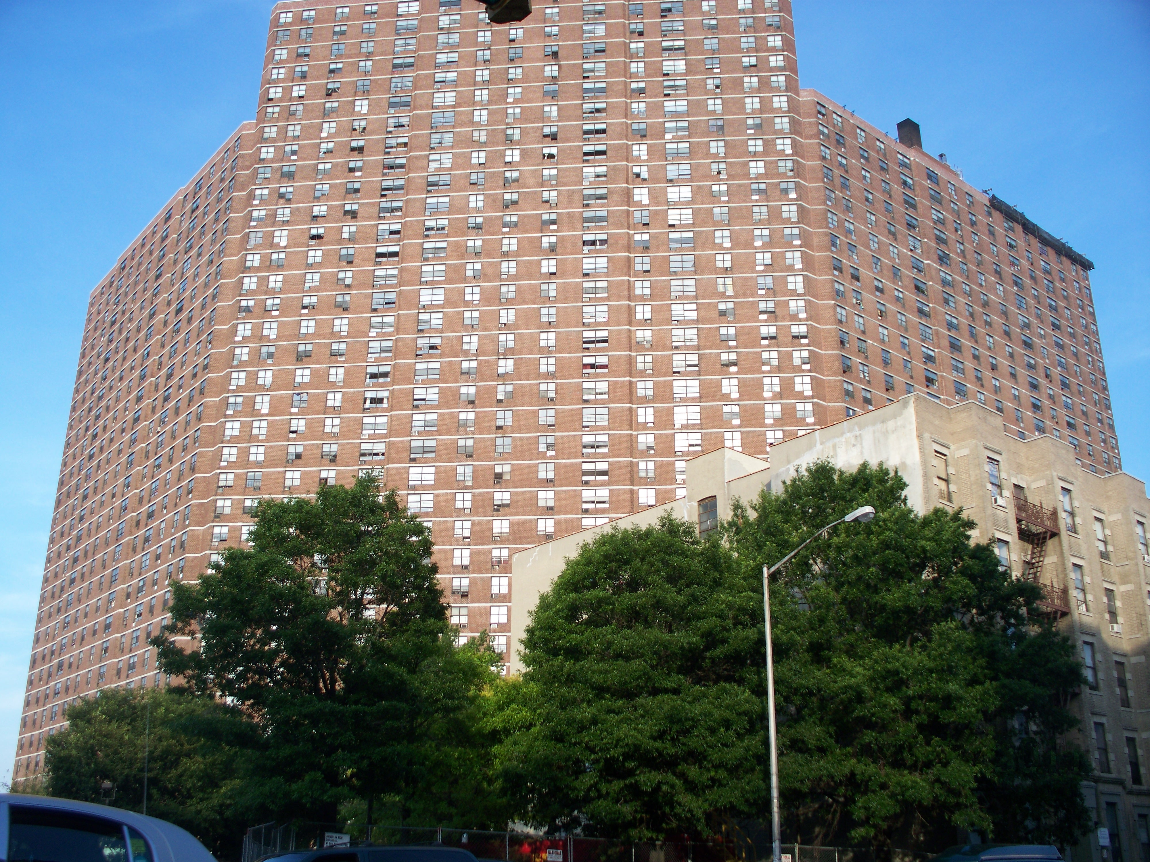 picture of 3333 Broadway, Harlem, NYC. Taken from 135th street and Bdwy, looking southwest.